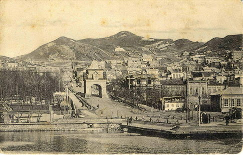 Triumphal Arch in Vladivostok, in memory of the visit by HRH Csesarevich Nicholas Alexandrovich, the Heir to the Russian throne (future Csar Nicholas II) in 1891. Demolished after the Communist revolution; recently rebuilt.